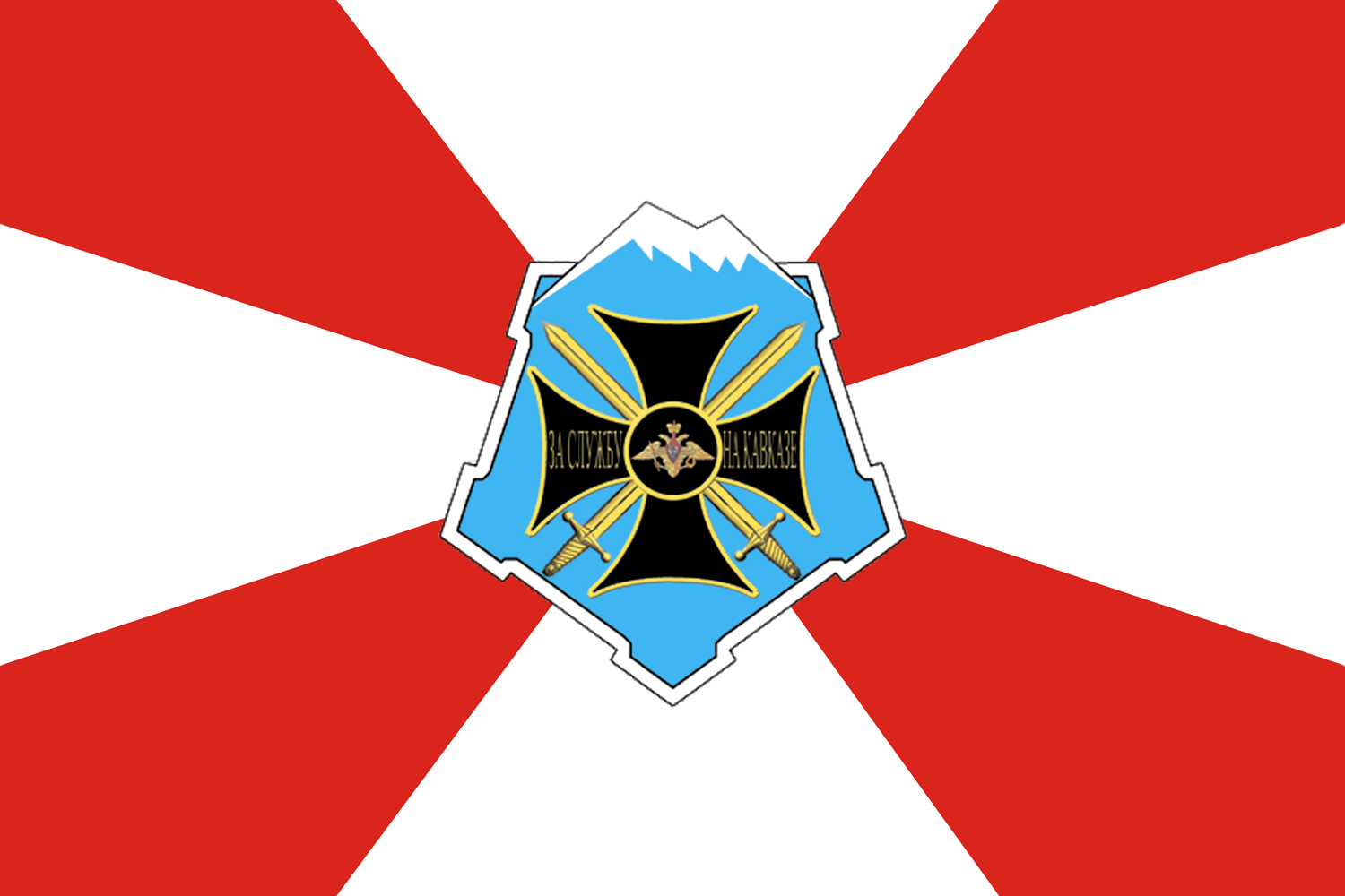 Flag of Southern Military District, Russia